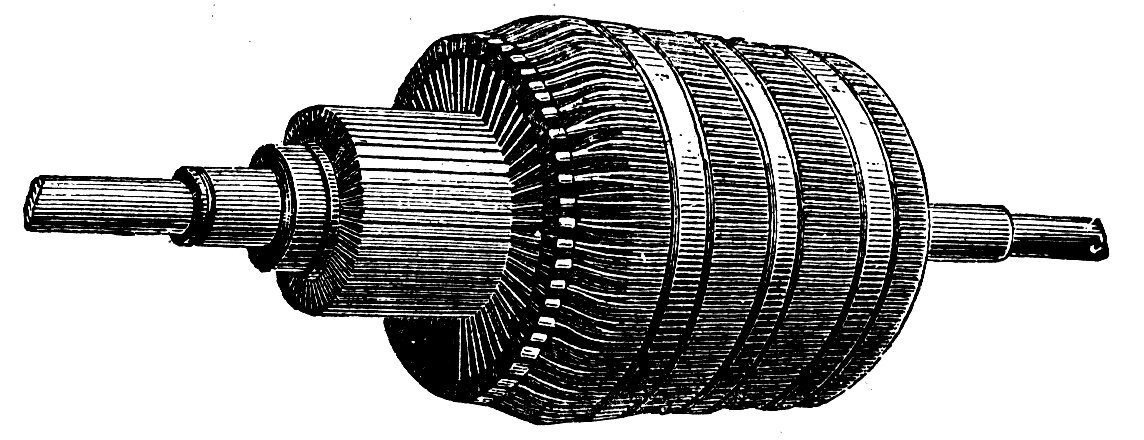 Original text of illustration: Figure 249: Modern form of the Gramme ring armature. The core consists of a number of thin flat rings of well-annealed charcoal iron, the outer diameter of each ring or disc being 11.5 inches and its inner diameter 9.25 inches. Sheets of thin paper insulate each disc from its neighbors to prevent the flow of eddy currents. The armature is mounted on a steel shaft to which is keyed a four-armed metal "spider", the extremes of whose arms fit into notches cut in the inner edges of the soft iron core rings, so that a good mechanical connection is obtained between the core and the shaft. The spider is made of a non-magnetic metal, to reduce the tendency to leakage of lines of force across the interior of the armature. The armature inductors consist of cotton-covered copper wire of No. 9 standard wire gauge, wound around the core in one layer and offering a resistance, from brush to brush, of 0.048 ohm. There are two convolutions in each section, the adjacent ends of neighboring sections being soldered to radial lugs projecting from the commutator bars. Public Domain source: Hawkins Electrical Guide, Volume 1 Chapter 17: The Armature, Page 224. Copyright 1917 by Theo. Audel & Co. Printed in the United States Scanned by Dale Mahalko, Gilman, WI, USA DMahalko (talk) 22:01, 12 January 2008 (UTC)